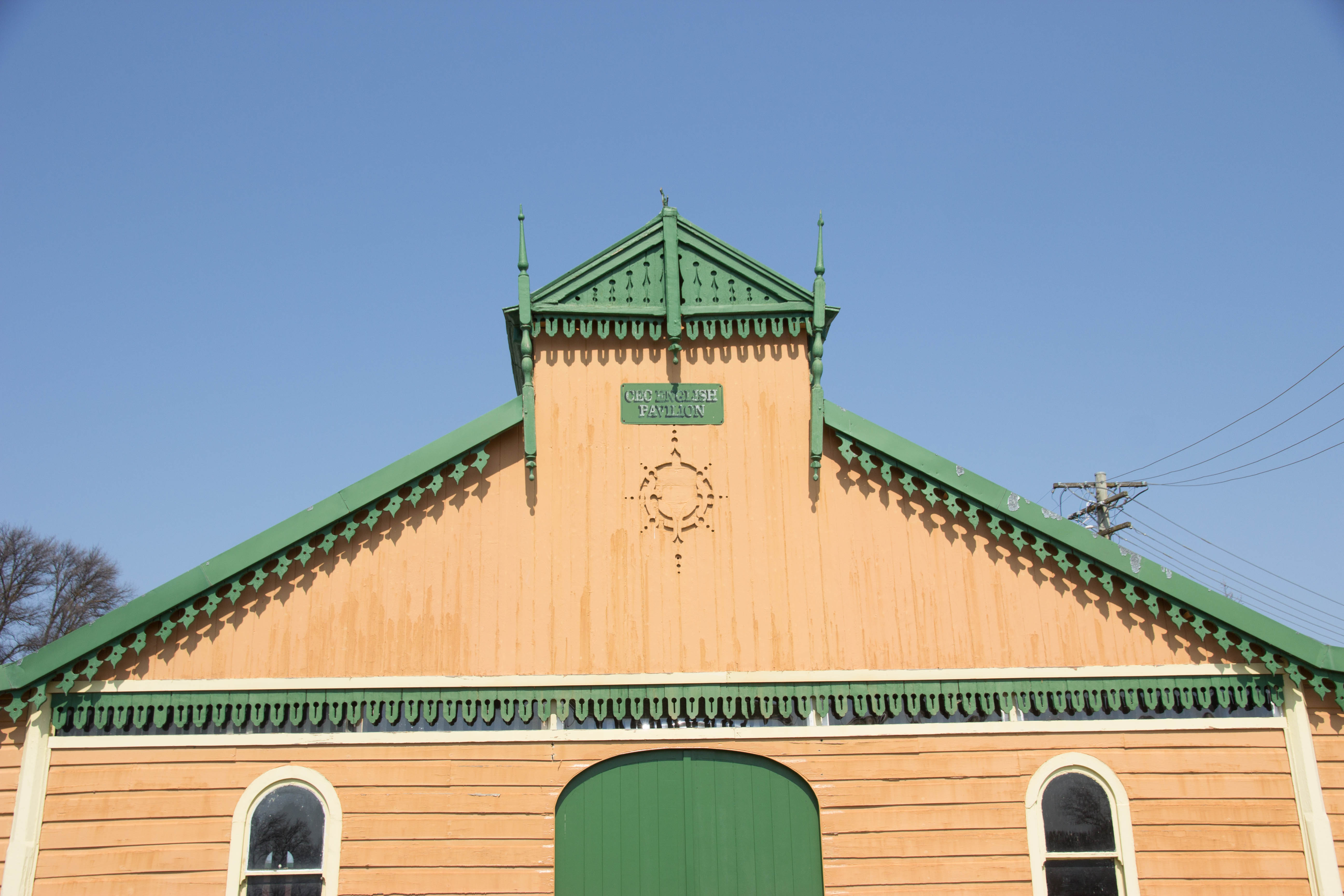 Bathurst Showground in Bathurst, New South Wales